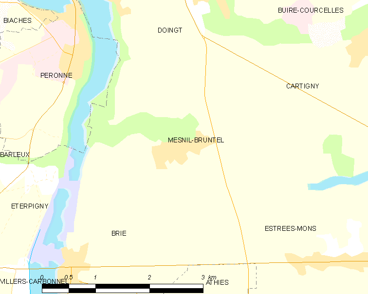 Map of French municipality Mesnil-Bruntel